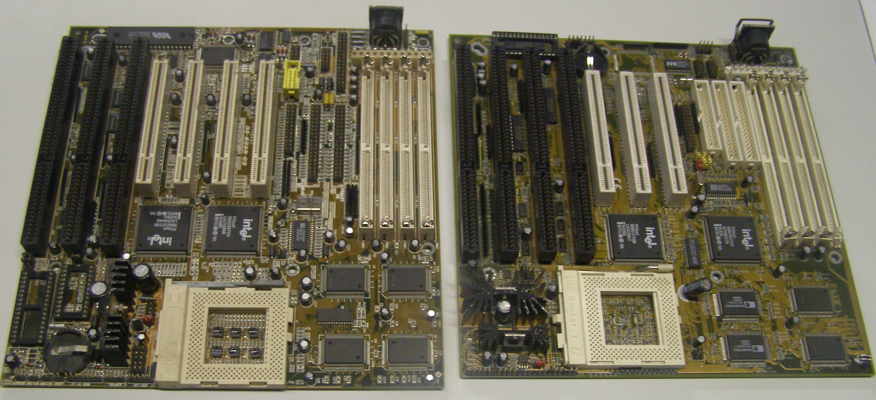 Two computer motherboards based on the Intel 430VX chipset